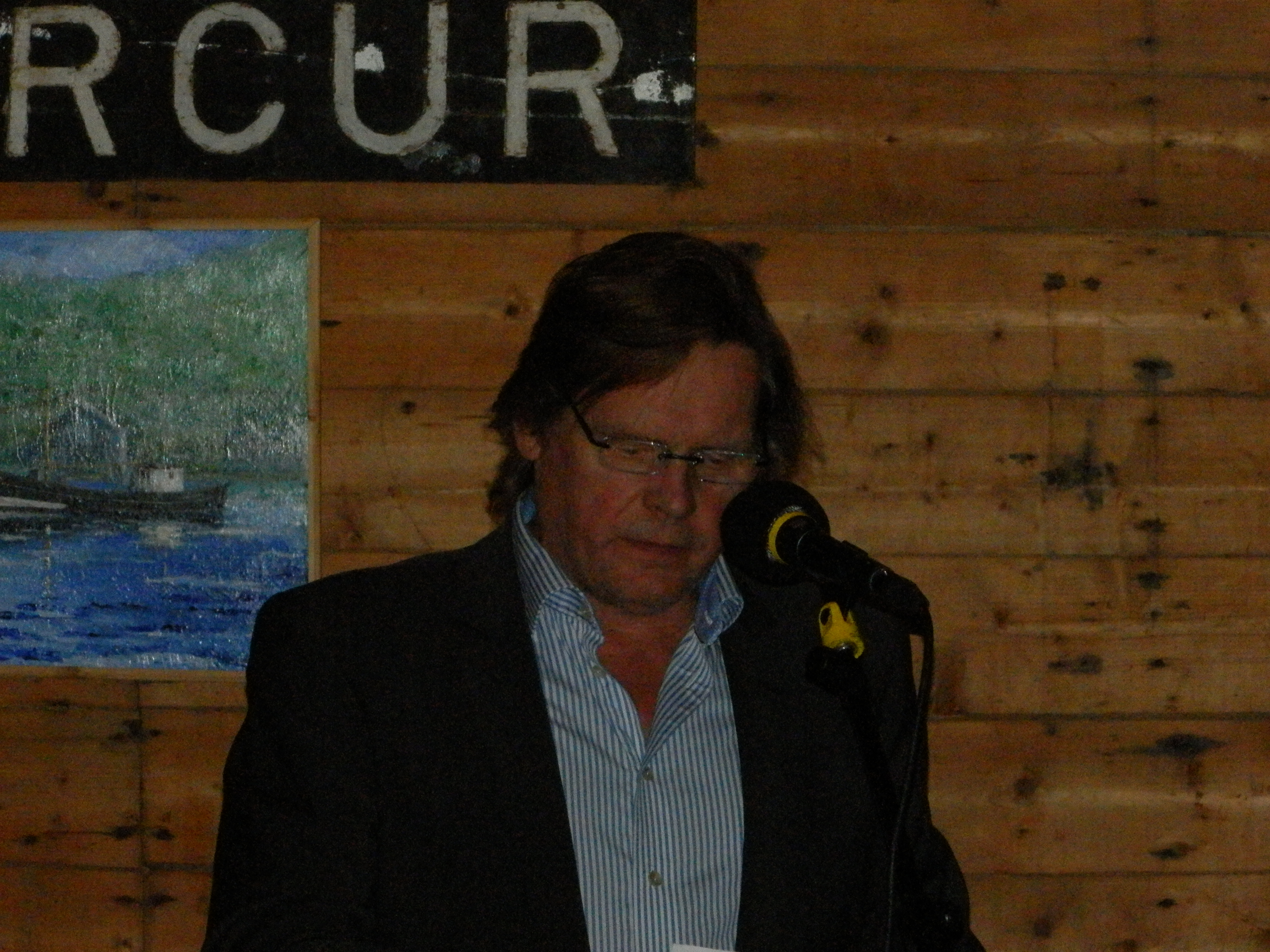 Rói Patursson is a Farose poet. He is until now (March 2014) the only Faroese person who has been awarded the Nordic Council's Literature Prize.